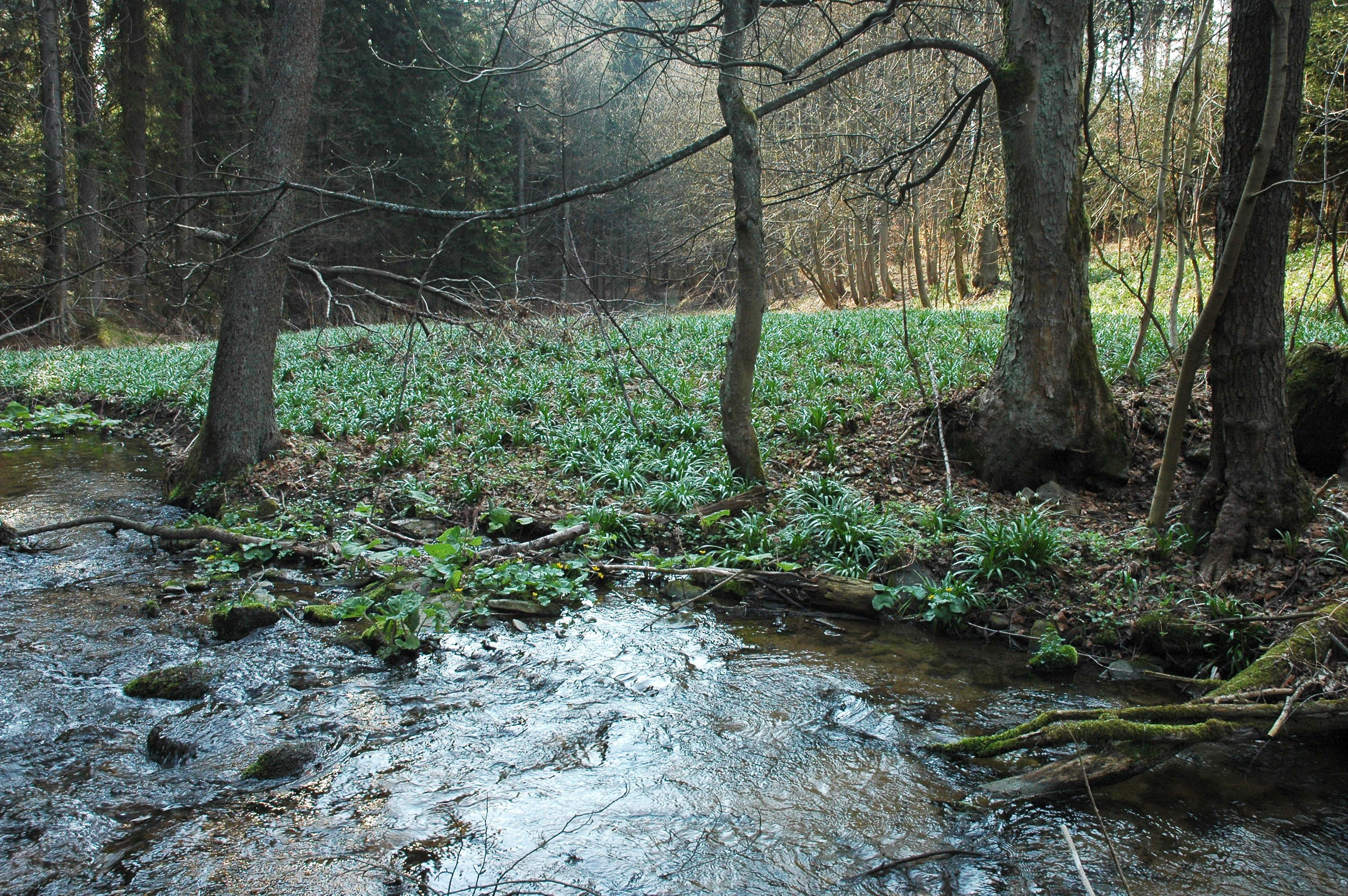 Natural monument Čenkovička in Ústí nad Orlicí District, Czech Republic